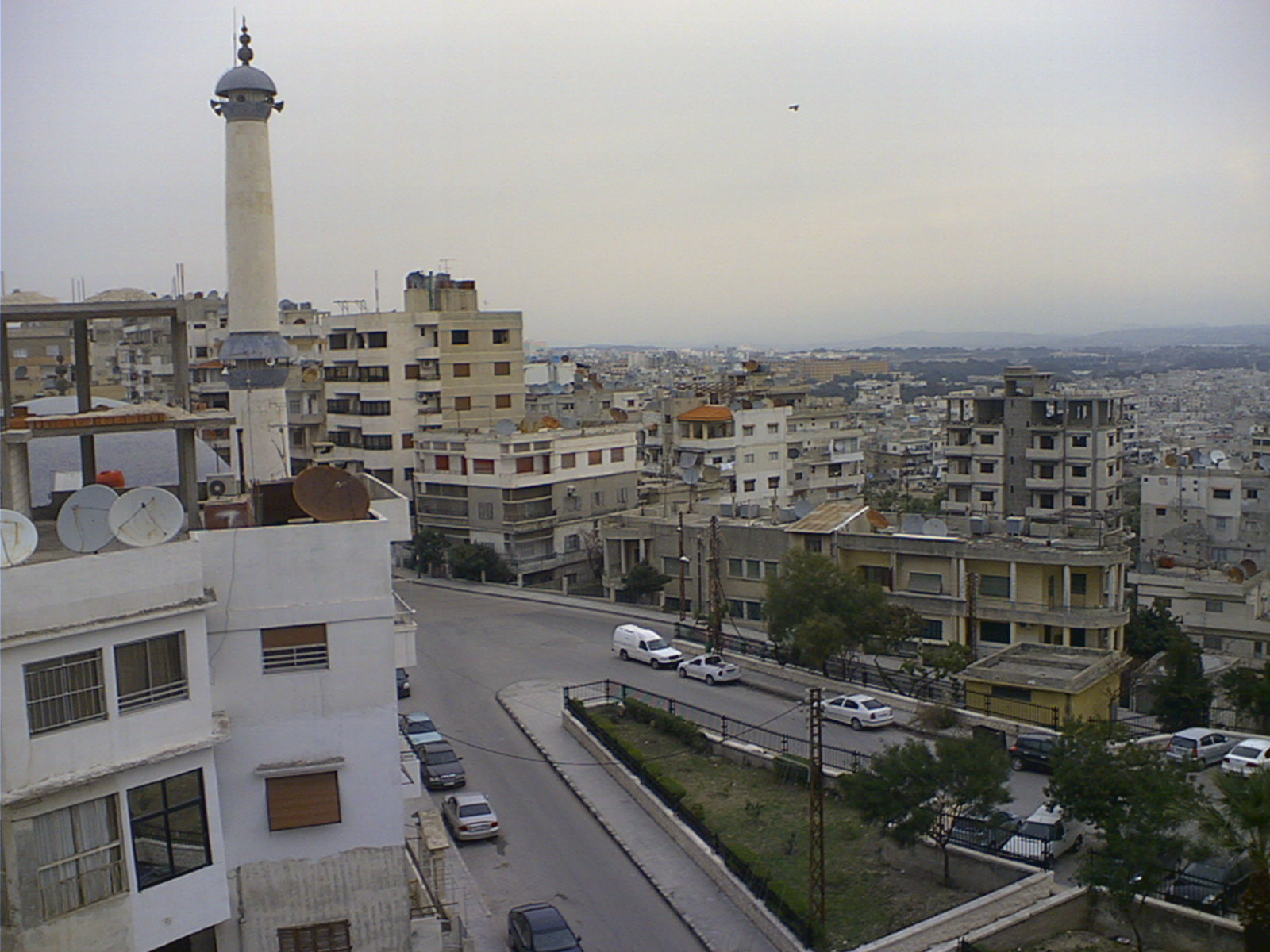 A view of Tabiat street in lattakia